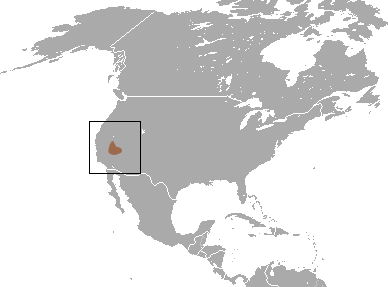 Inyo Shrew (Sorex tenellus) range